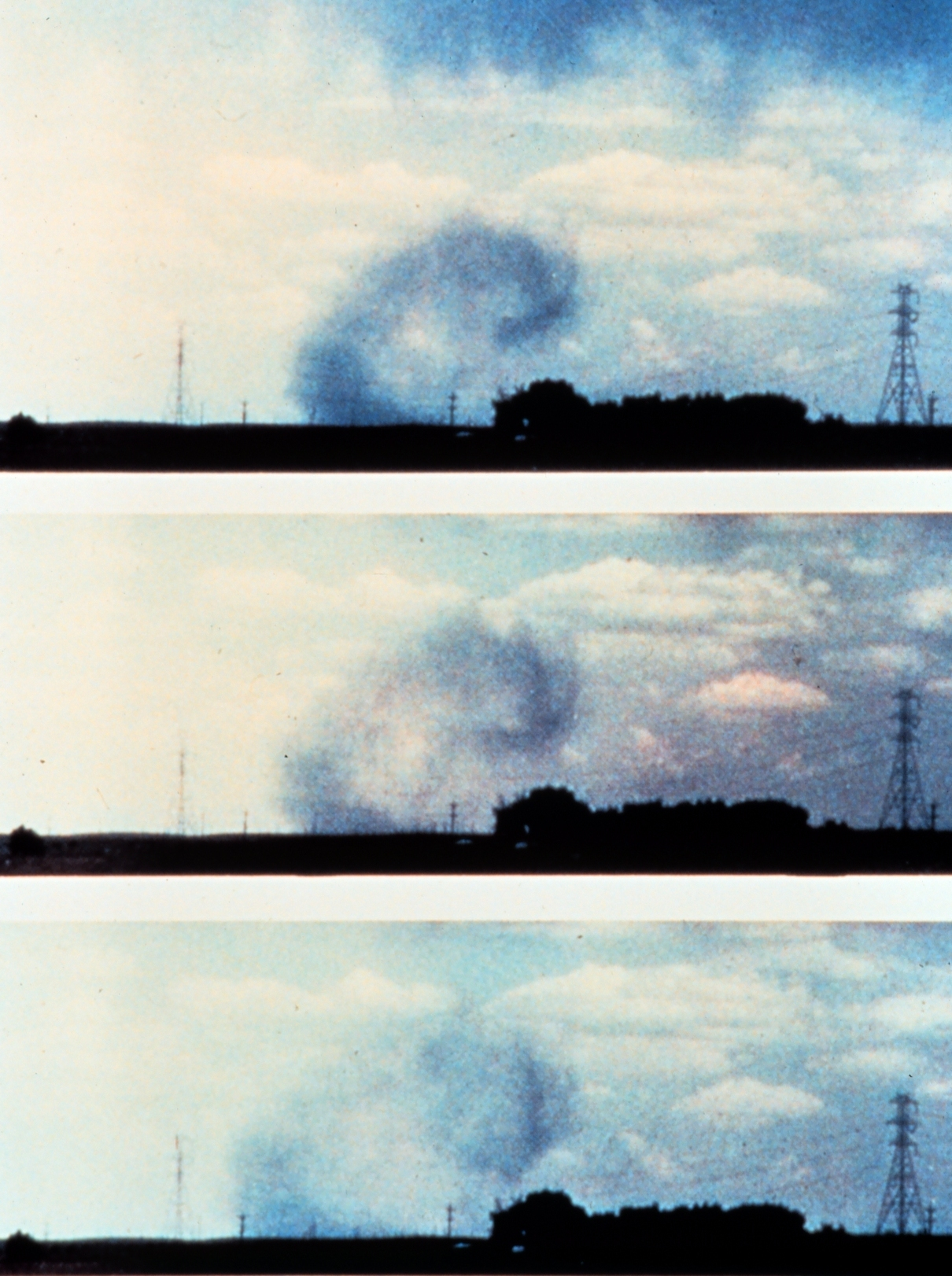 Photos of a microburst, a dangerous meteorological occurrence for aircraft